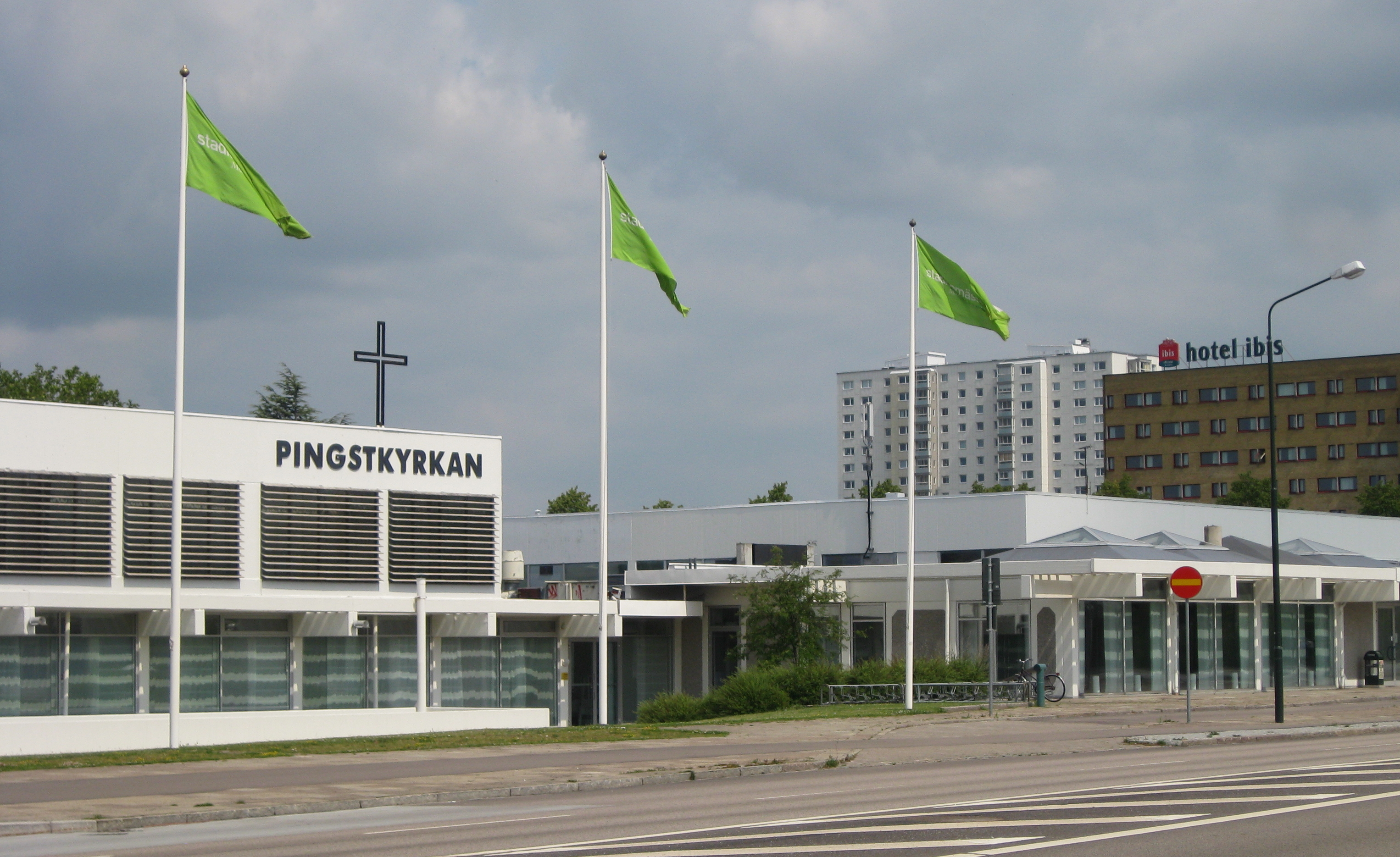 Europaporten pentecostal church in Malmö, Sweden